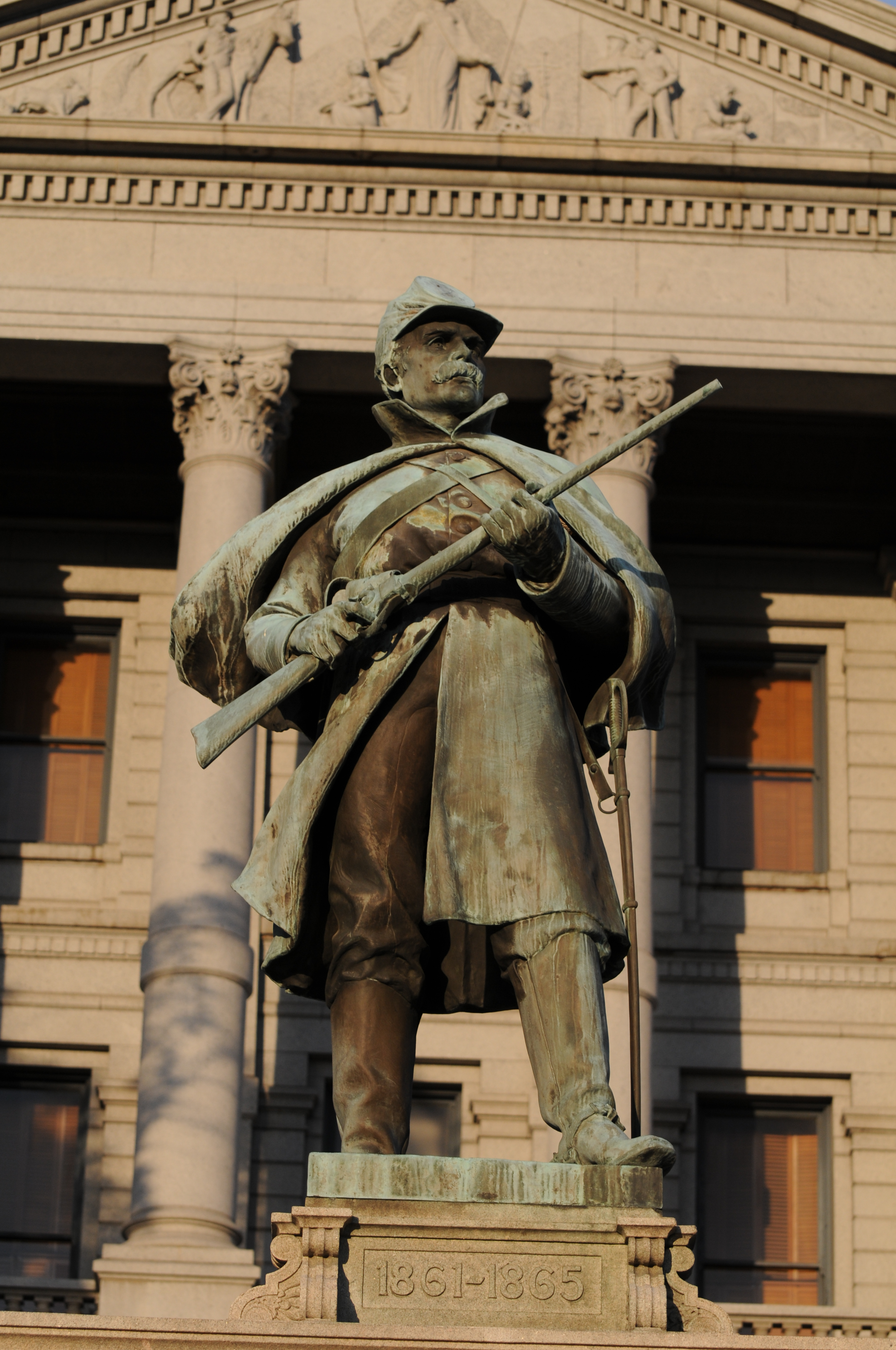 statue in front of colorado state capitol